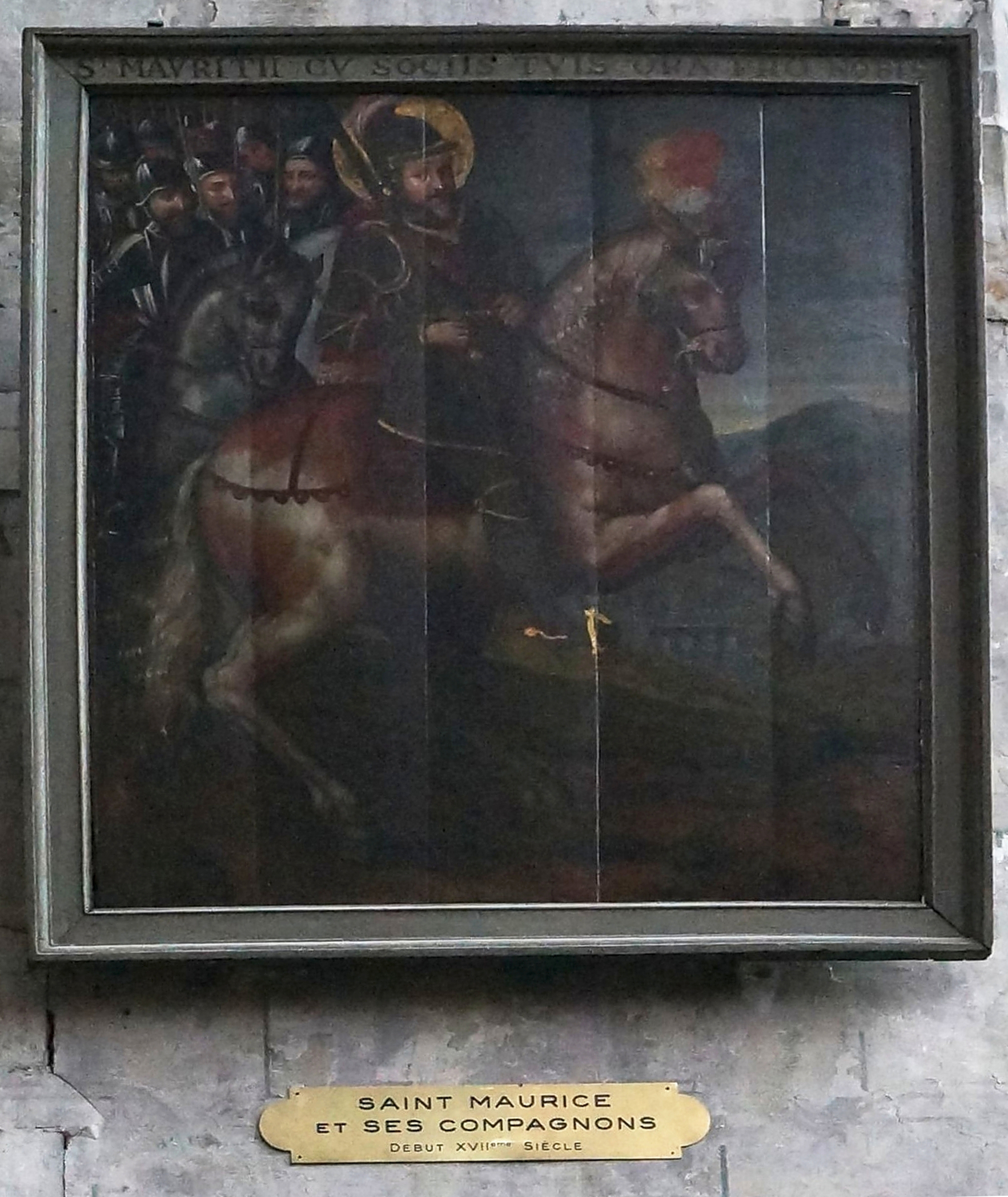 Small wood panel with the church's patron saint St Maurice XVII century in Lille.